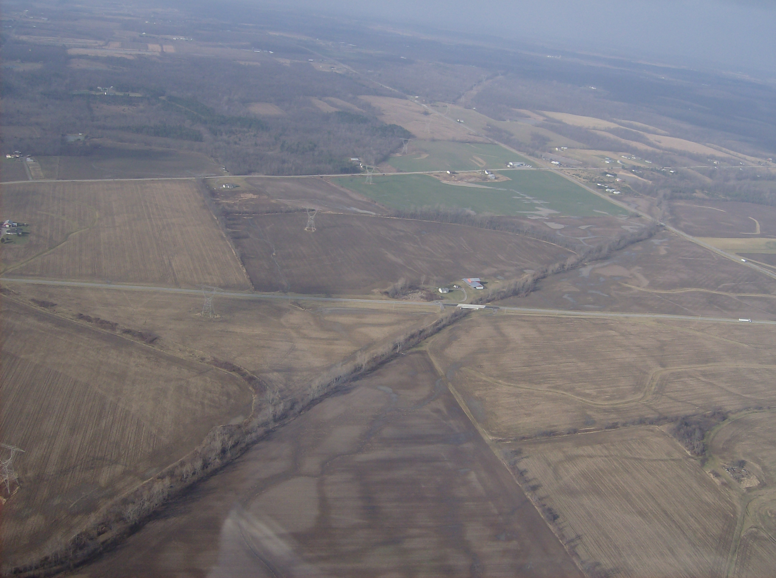 Aerial view of a bridge on State Route 292 in the southwestern corner of Bokes Creek Township, Logan County, Ohio, United States, west of the village of West Mansfield. State Route 47 is visible in the upper right corner, with its intersection with State Route 292 just off the right edge of the picture. Picture taken from a Diamond Eclipse light airplane from an altitude of 2,600 feet MSL at an bearing of approximately 273º.